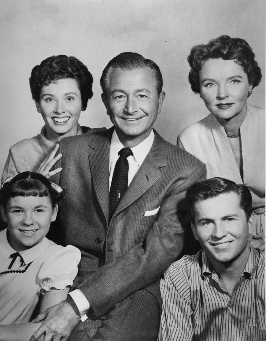 Cast photo of the Anderson family from the television program Father Knows Best. Top row, from left: Elinor Donahue, Robert Young, Jane Wyatt. Bottom row, from left: Lauren Chapin, Billy Gray.